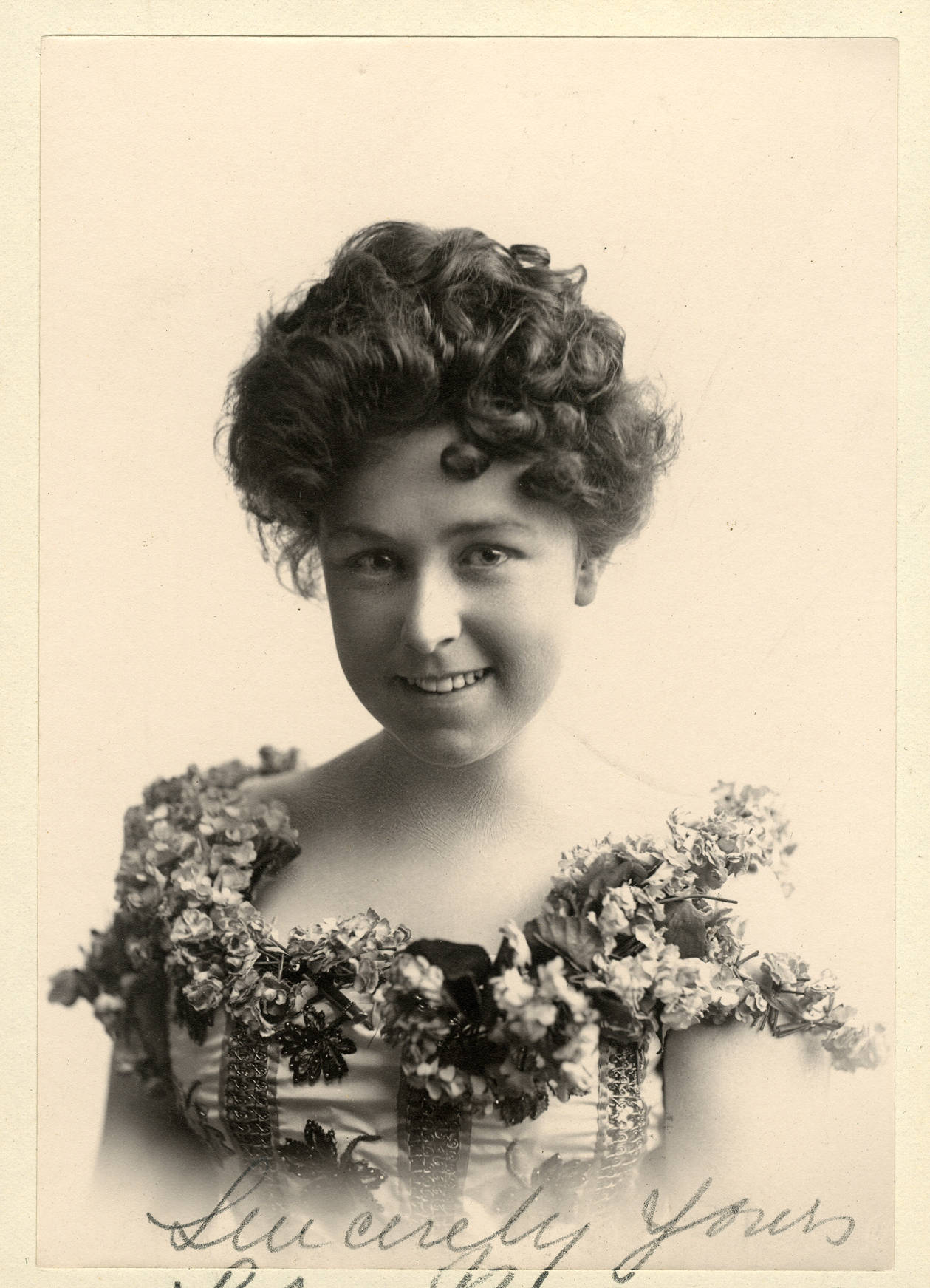 Stock actress Lily Branscombe. Subjects: actresses